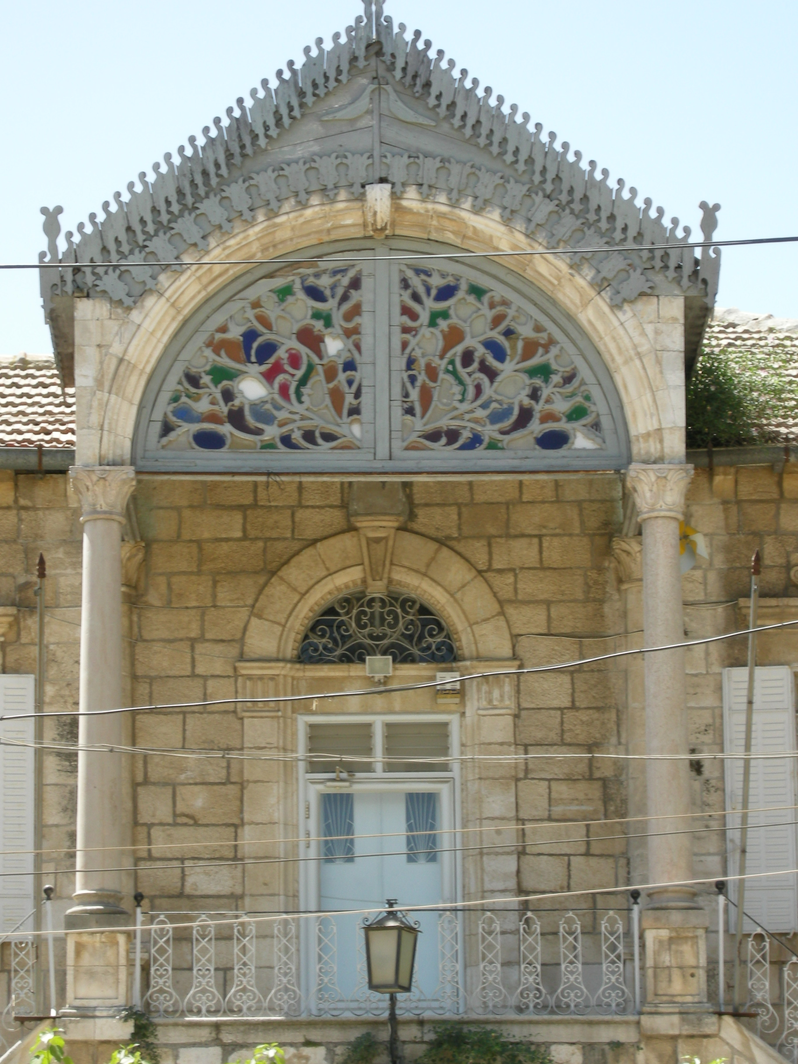 Jerusalem, 8 Abu Obeidah Ibn el-Jarah Street, Orient House